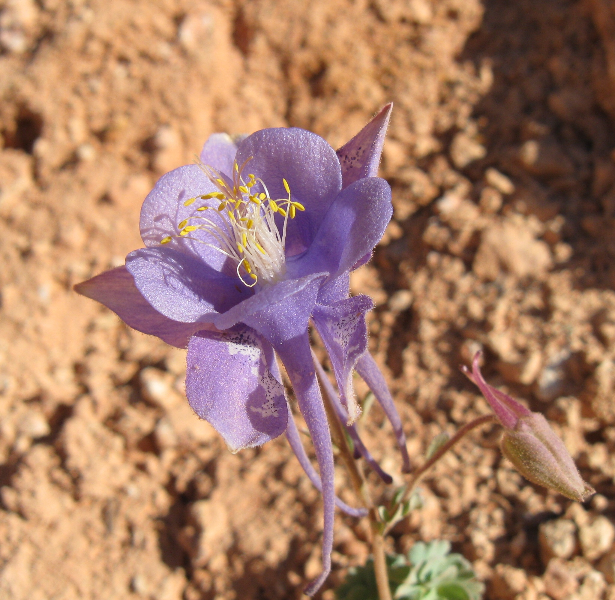 Aquilegia scopulorum, photographed in Bryce Canyon National Park, Utah, USA